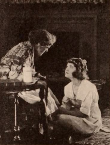 Still from the American comedy film Mary Ellen Comes to Town (1920) with Kate Bruce and Dorothy Gish, on page 66 of the April 3, 1920 Exhibitors Herald.